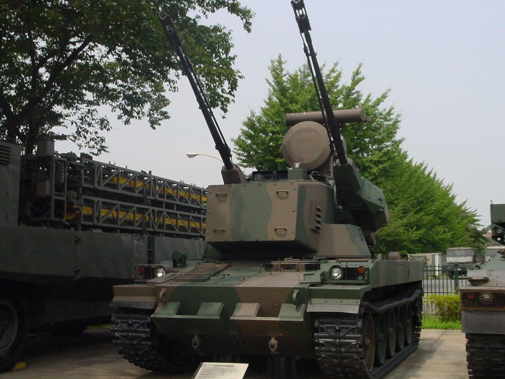 陸上自衛隊87式自走高射機関砲 Type 87 self-propelled anti-aircraft machine-gun, Japan Ground Self Defence Force